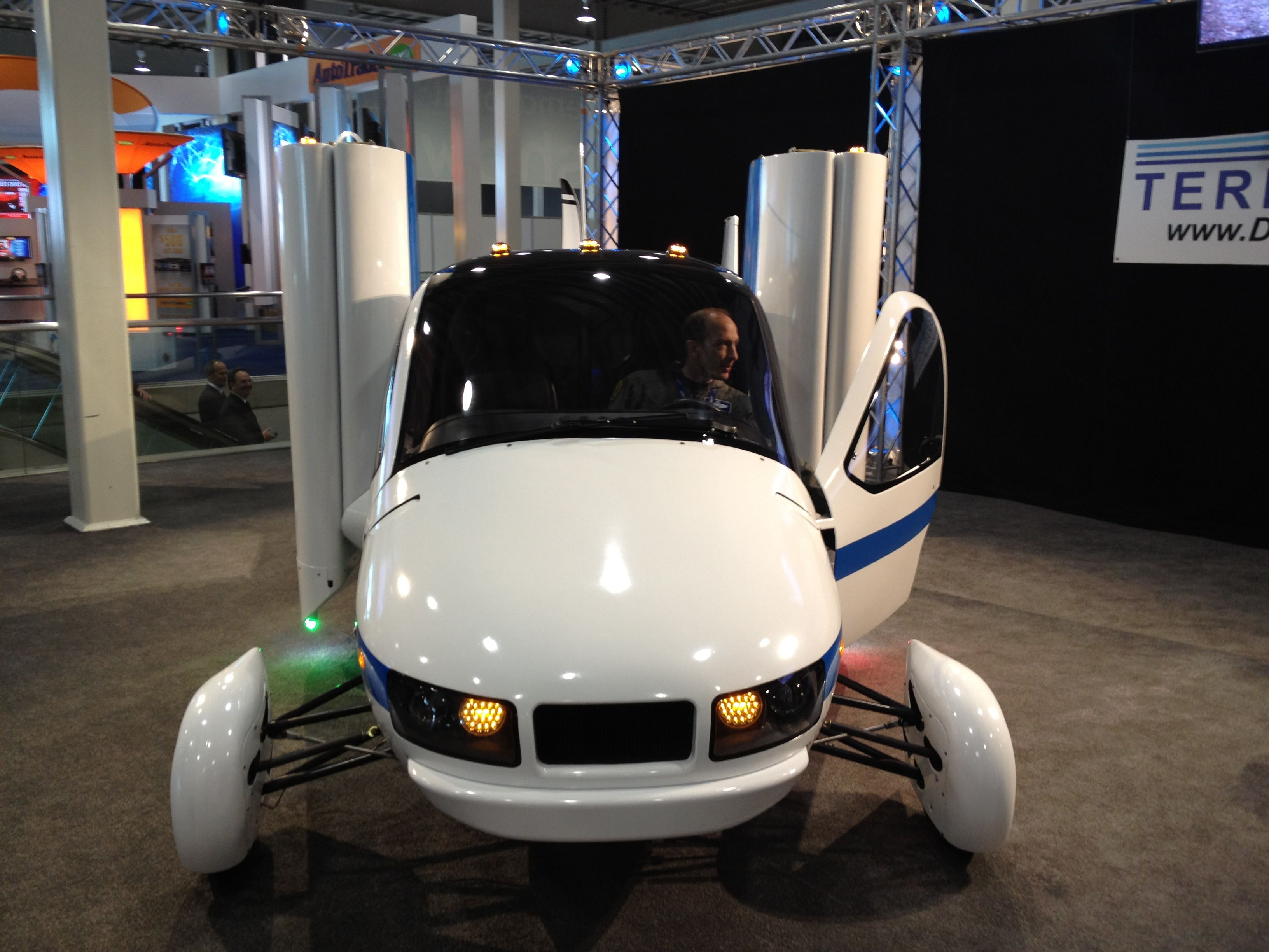 Possibly the most talked about "car" will be the Terrafugia Transition Production Prototype drivable airplane as it will be landing at the 2012 New York International Auto Show. This flying car is said to be capable of getting 35 mpg when on the road and up to 400 to 450 miles when in the air. The Terrafugia seats two people and also comes with four wheels, two wings, air bags, and a parachute if you purchase one, but they are not cheap as they have been priced at $279,000. Pictures courtesy of LotPro's own Steve Cypher.